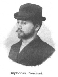 Photograph of Alfonso Canciani (1863-1955), Austrian-Italian sculptor